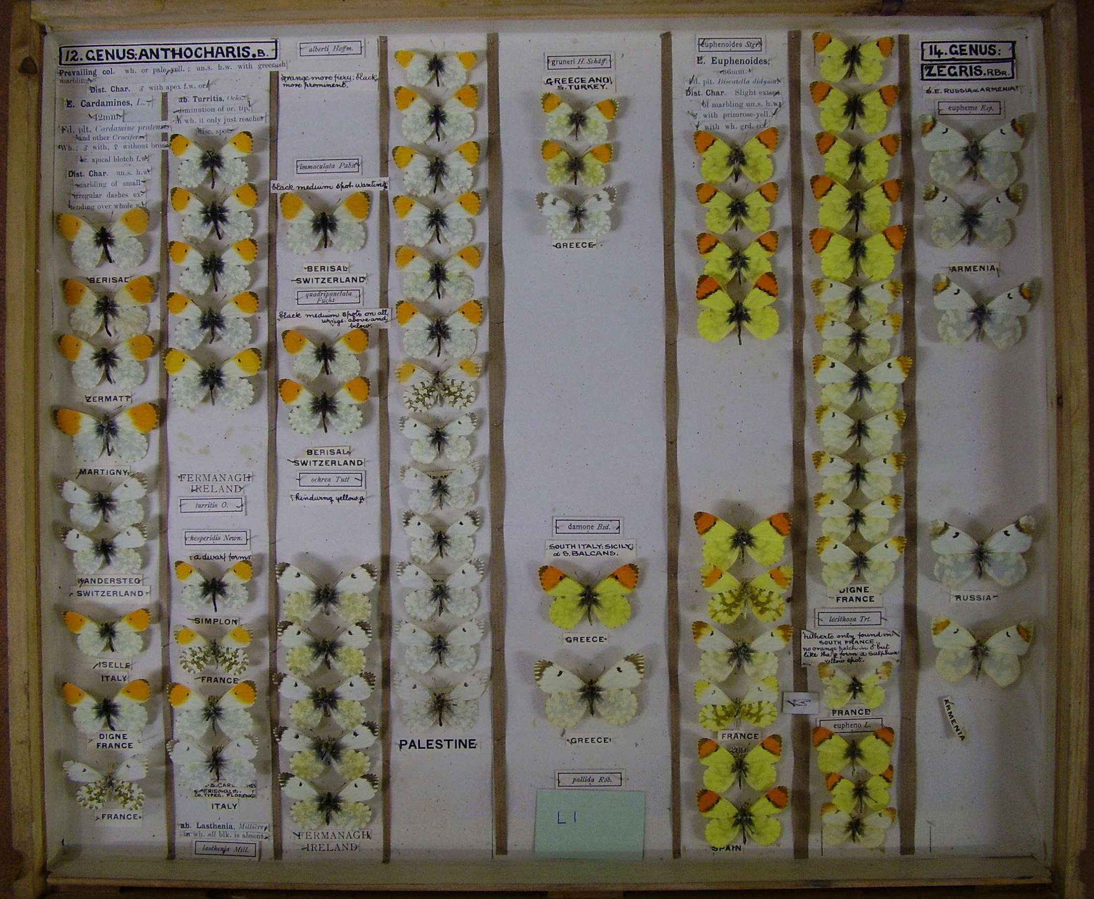 Drawer of Palaearctic Anthocharis and Zegris